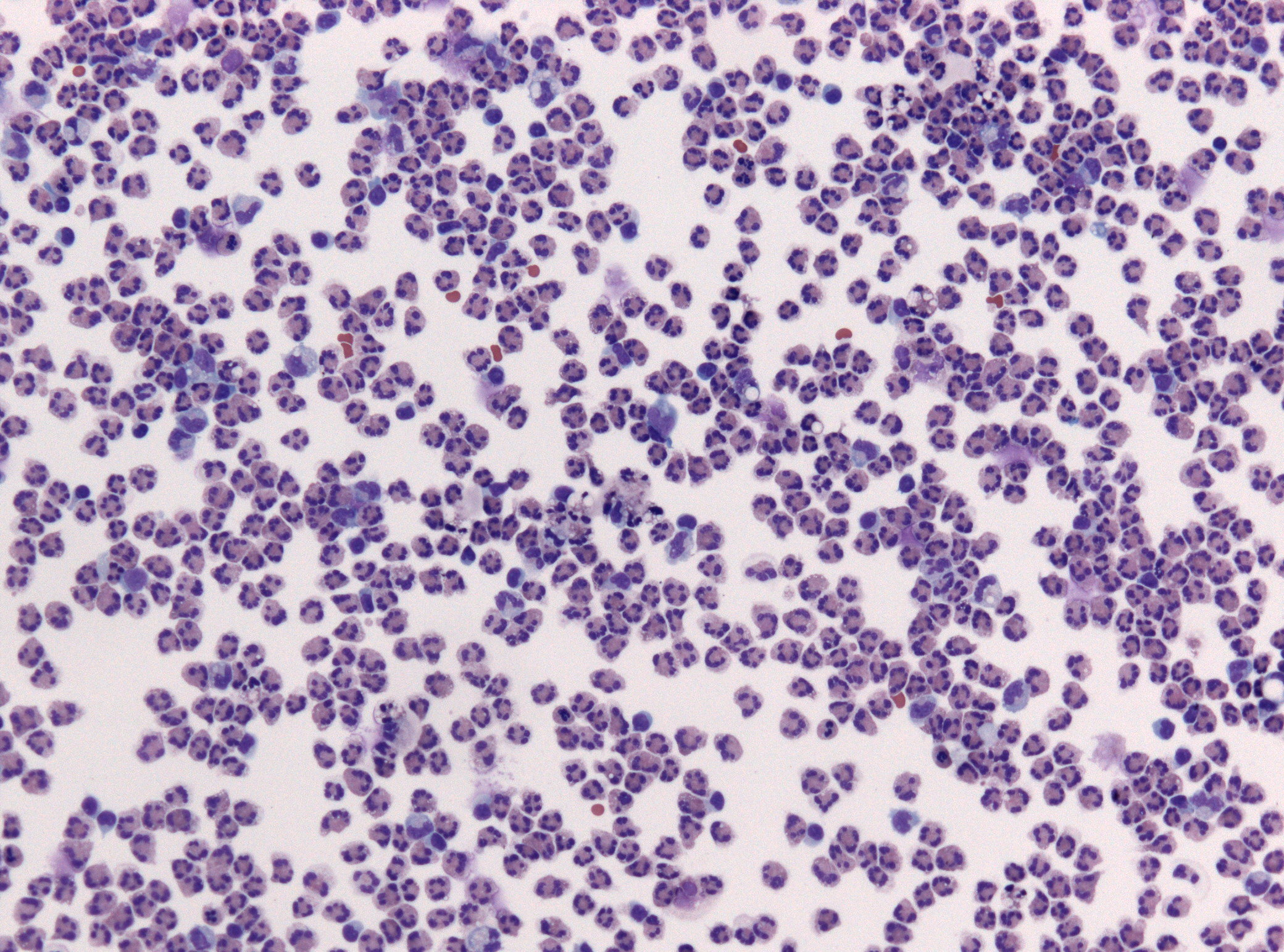 Cerebrospinal fluid specimen (Pappenheim stain) with numerous neutrophils indicating a purulent meningitis.